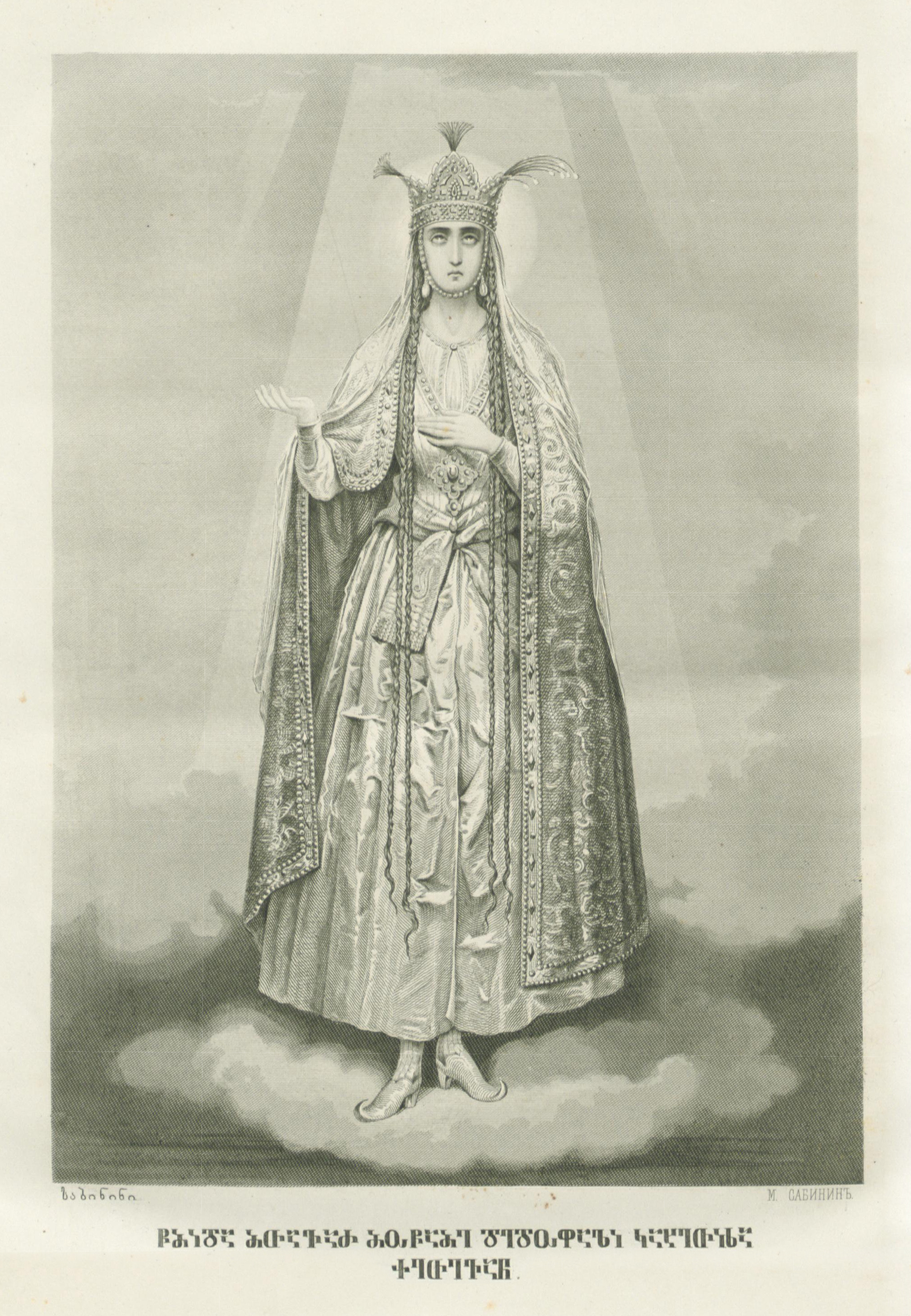 St. Queen Ketevan the Martyr (17th century)